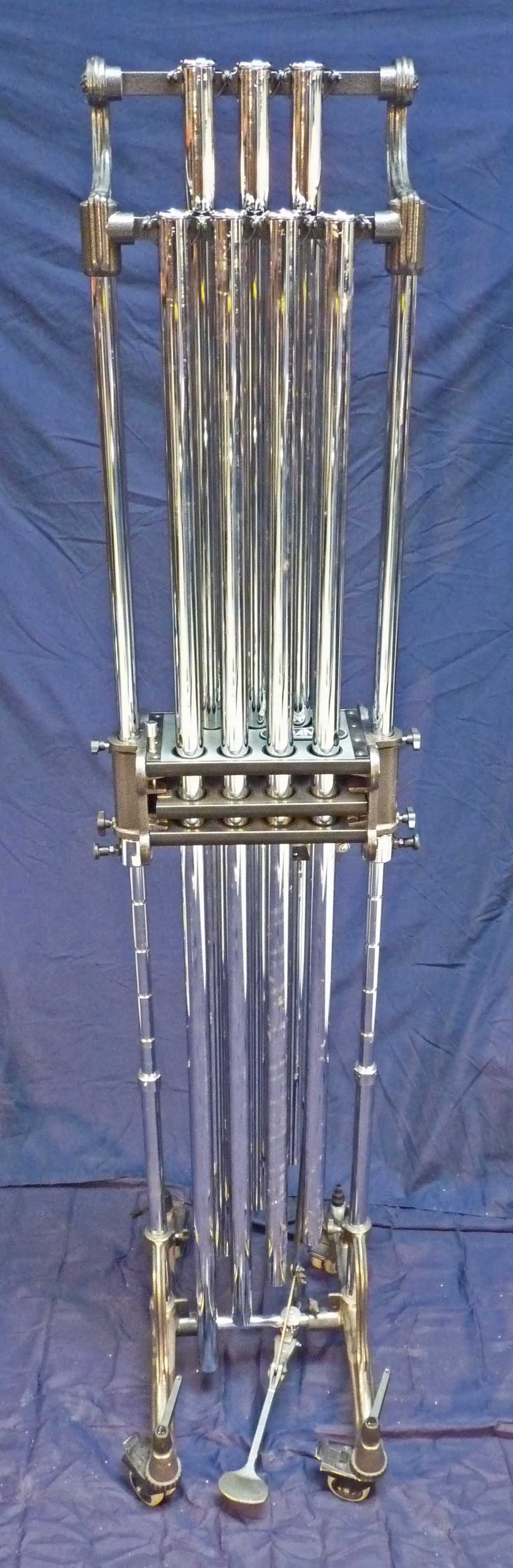 Adams Bass Chimes/ Tubular Bells, range F3-B3